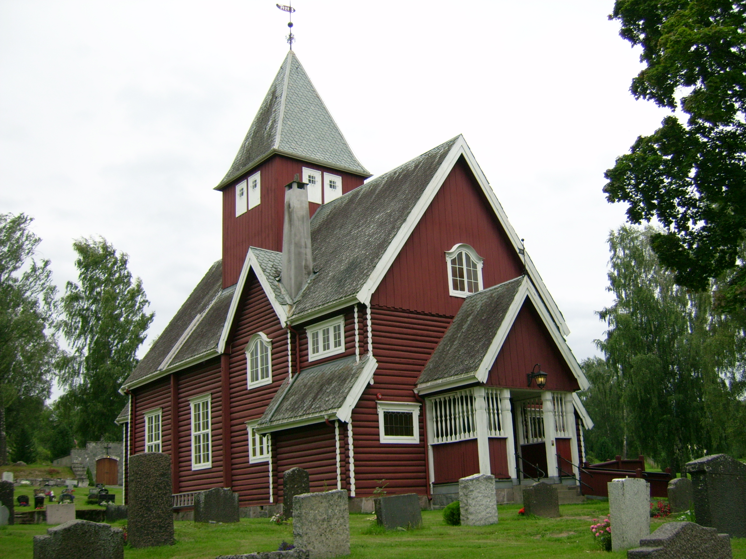 Moen chapel, Gran, Norway